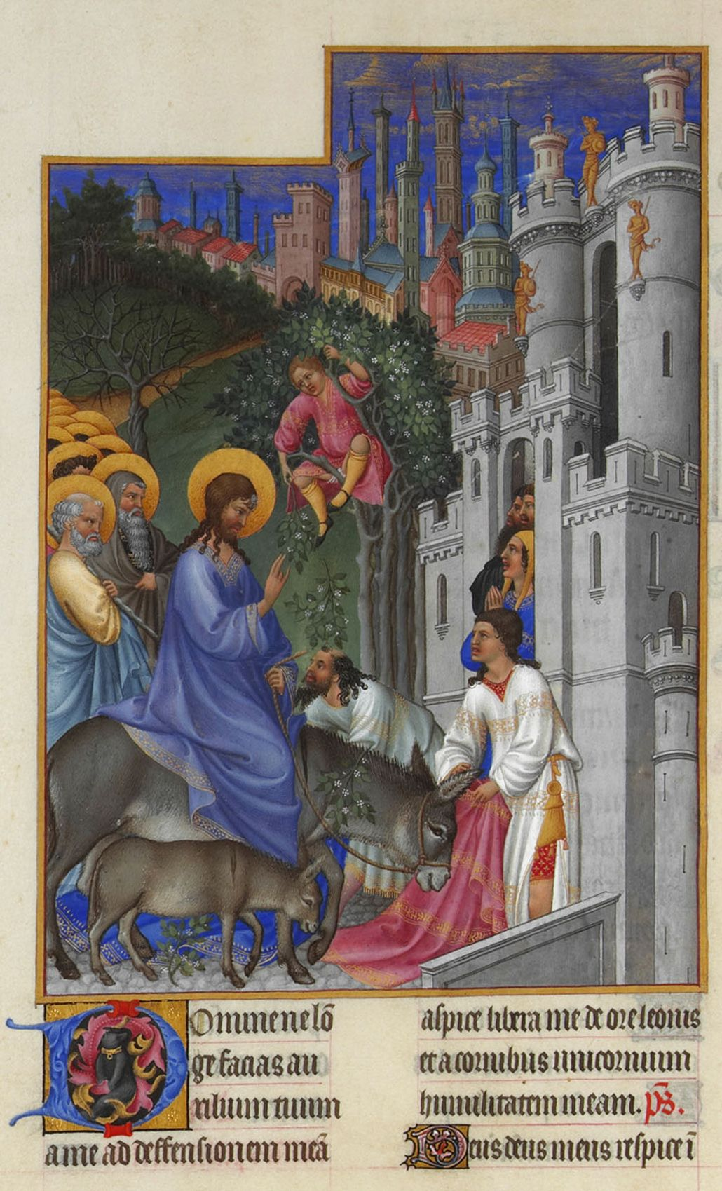 Très Riches Heures du Duc de Berry}, Folio 173v - The Entry into Jerusalem